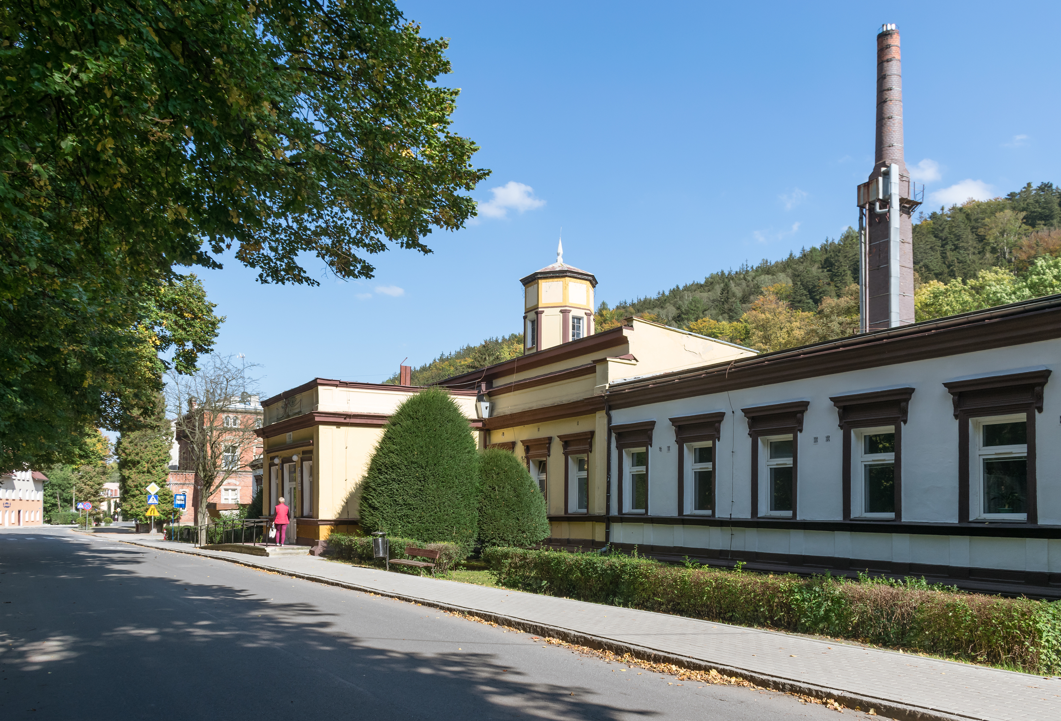 Balneological Centre in Długopole-Zdrój Wikidata has entry Q30046548 with data related to this item.